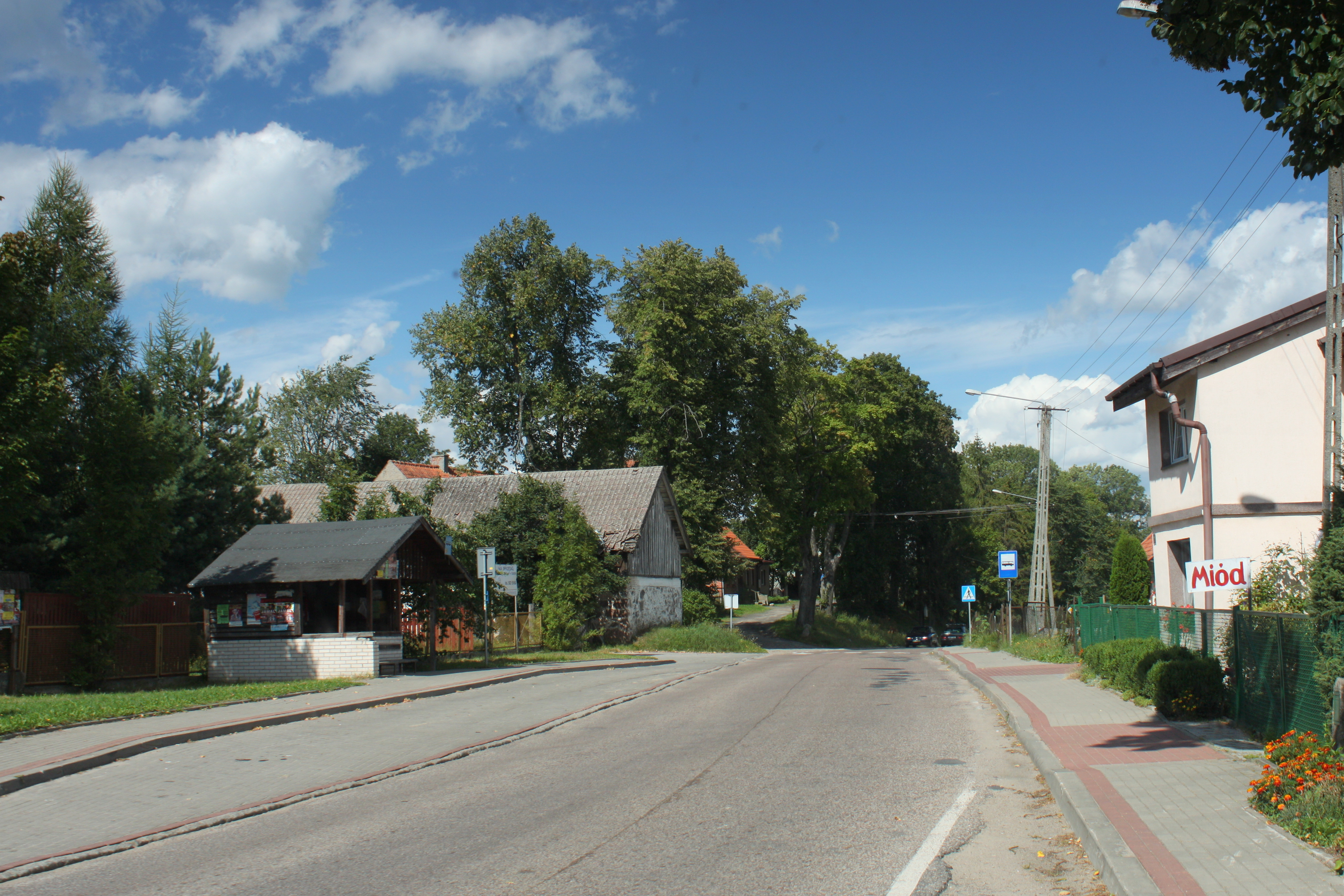 Road in Baranowo.